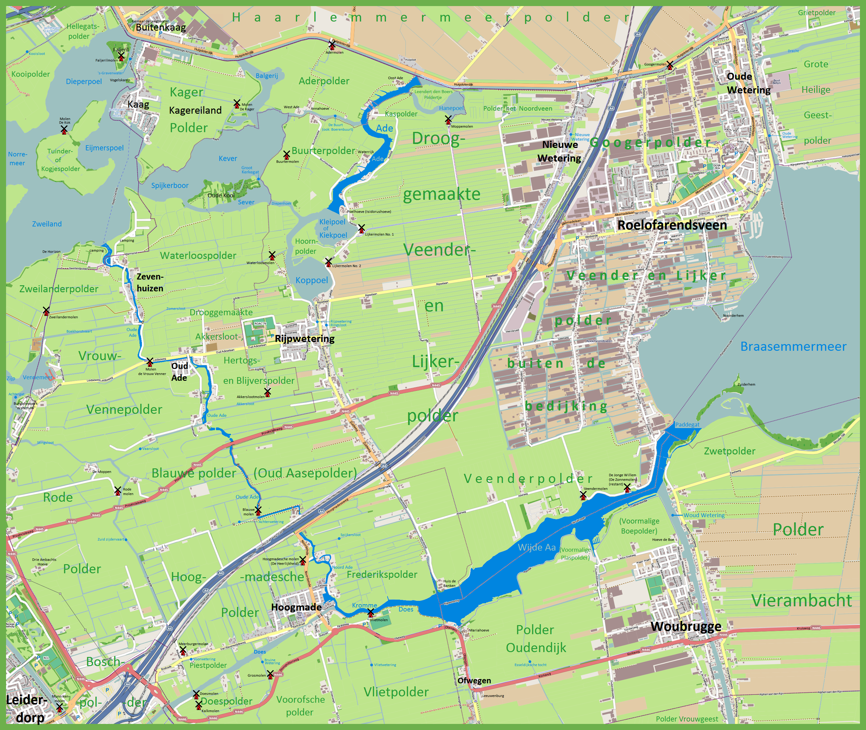 The Ade and Oude Ade (both in dark blue on this map) are natural waterways in the municipality of Kaag and Braassem (Province of South Holland, Netherlands). The Oude Ade (Old Ade) is 9.55 km long and ran originally from the Braassemmermeer (Lake Braassem) to Lake Zweiland but has long ago -for reasons of water management- been cut into several pieces with different water levels and different names. In some places little more than a ditch remains. The Ade is only 2,0 km long and forms the connection between the Kiekpoel or Kleipoel (a small lake) and the circular canal of the huge Haarlemmermeer Polder. The map shows the names of several other water bodies in this area, as well as polders, windmills, villages etc.